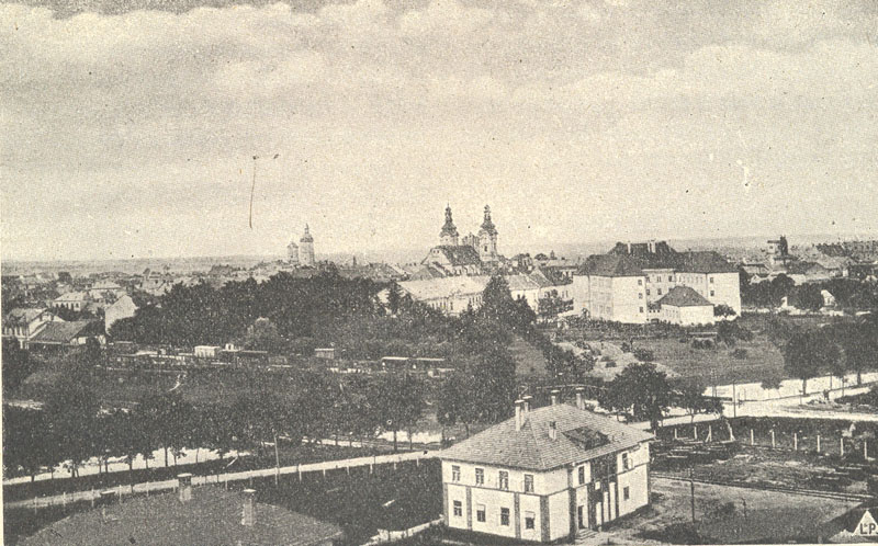 Ungarn Hradish